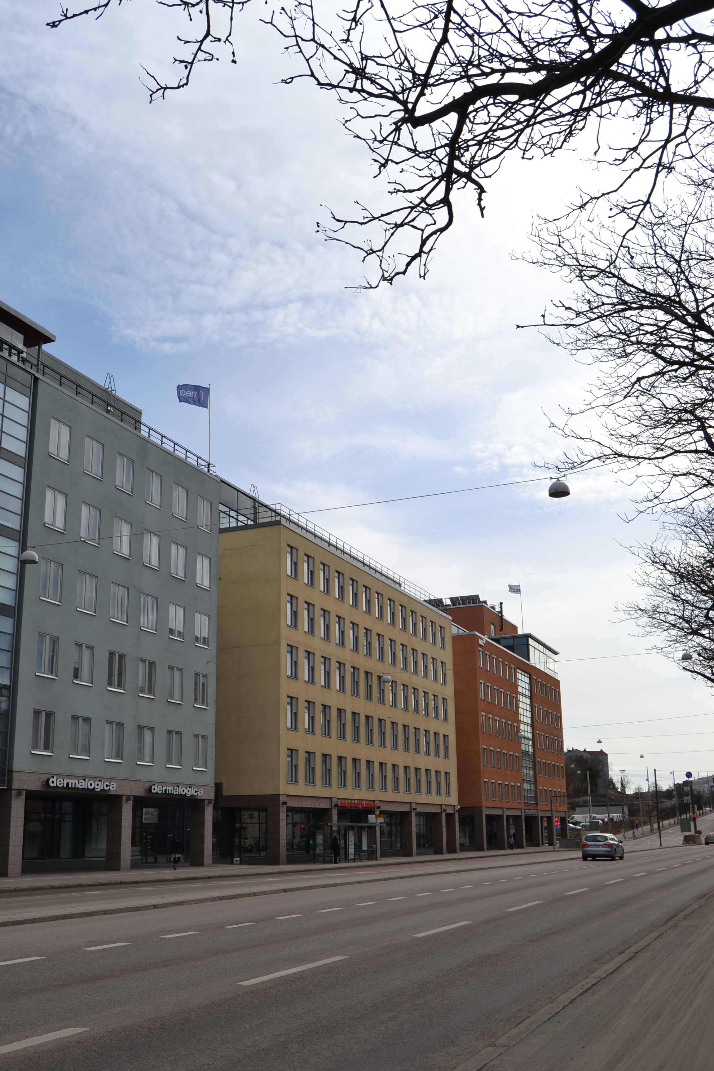 Commercial buildings. Mannerheimintie 103–105, Helsinki.